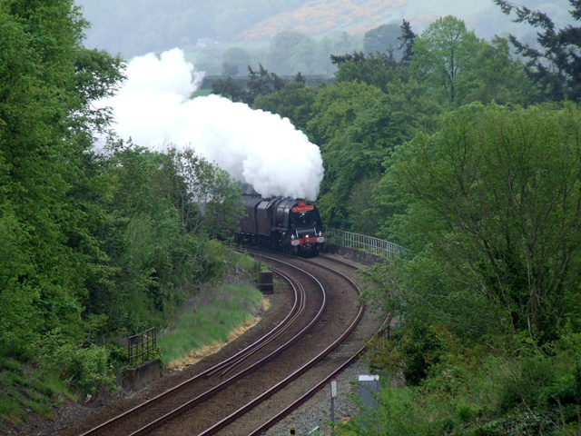 Steam train in tree lined cutting. A steam train special taking the bend prior to entering the tunnel at Llandegai